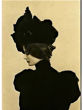 Postcard of the dancer Cleo de Merode